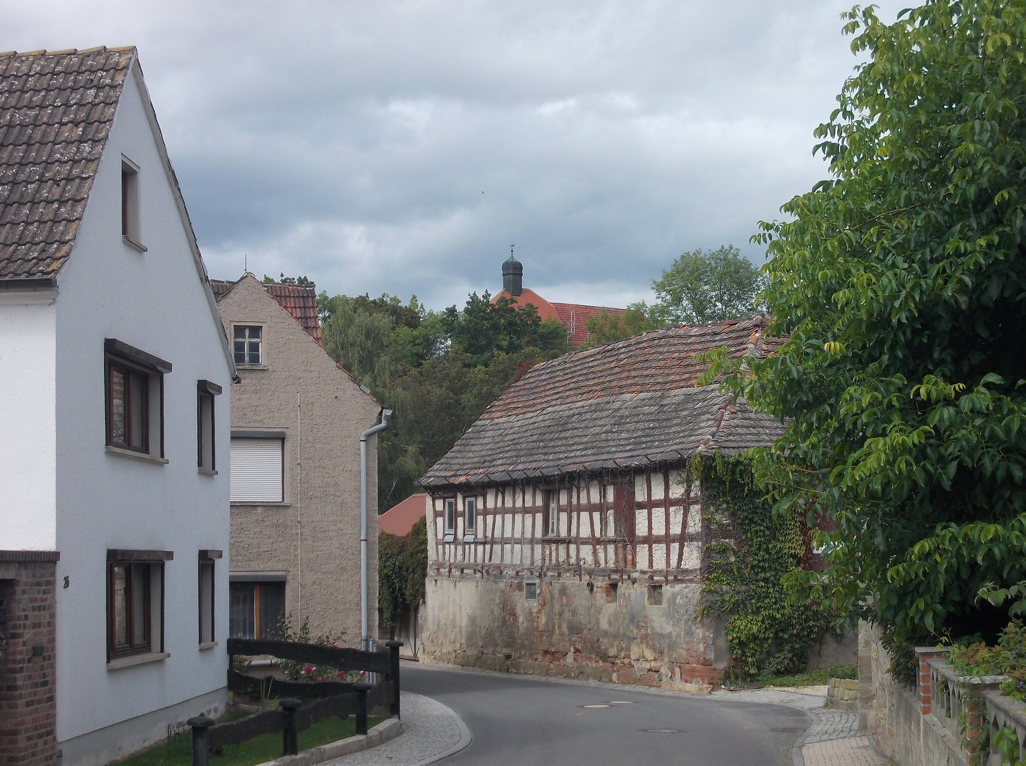 Wethautalstrasse in Wettaburg (Naumburg, district: Burgenlandkreis, Saxony-Anhalt)